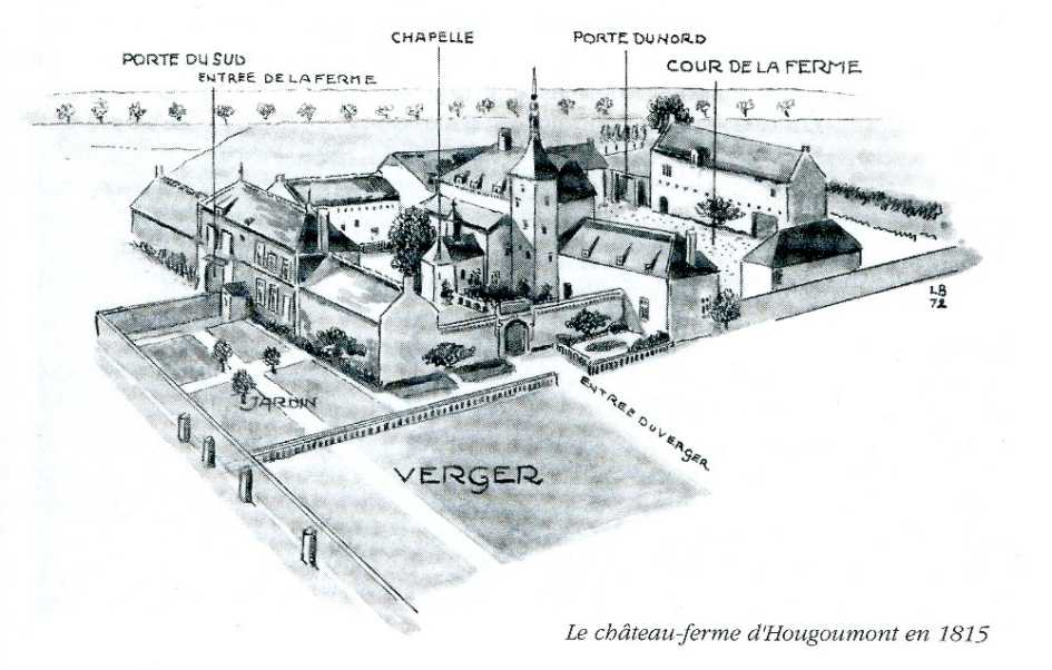 Drawing of Chateau Hougoumont at the end of the 18th century, annotated.